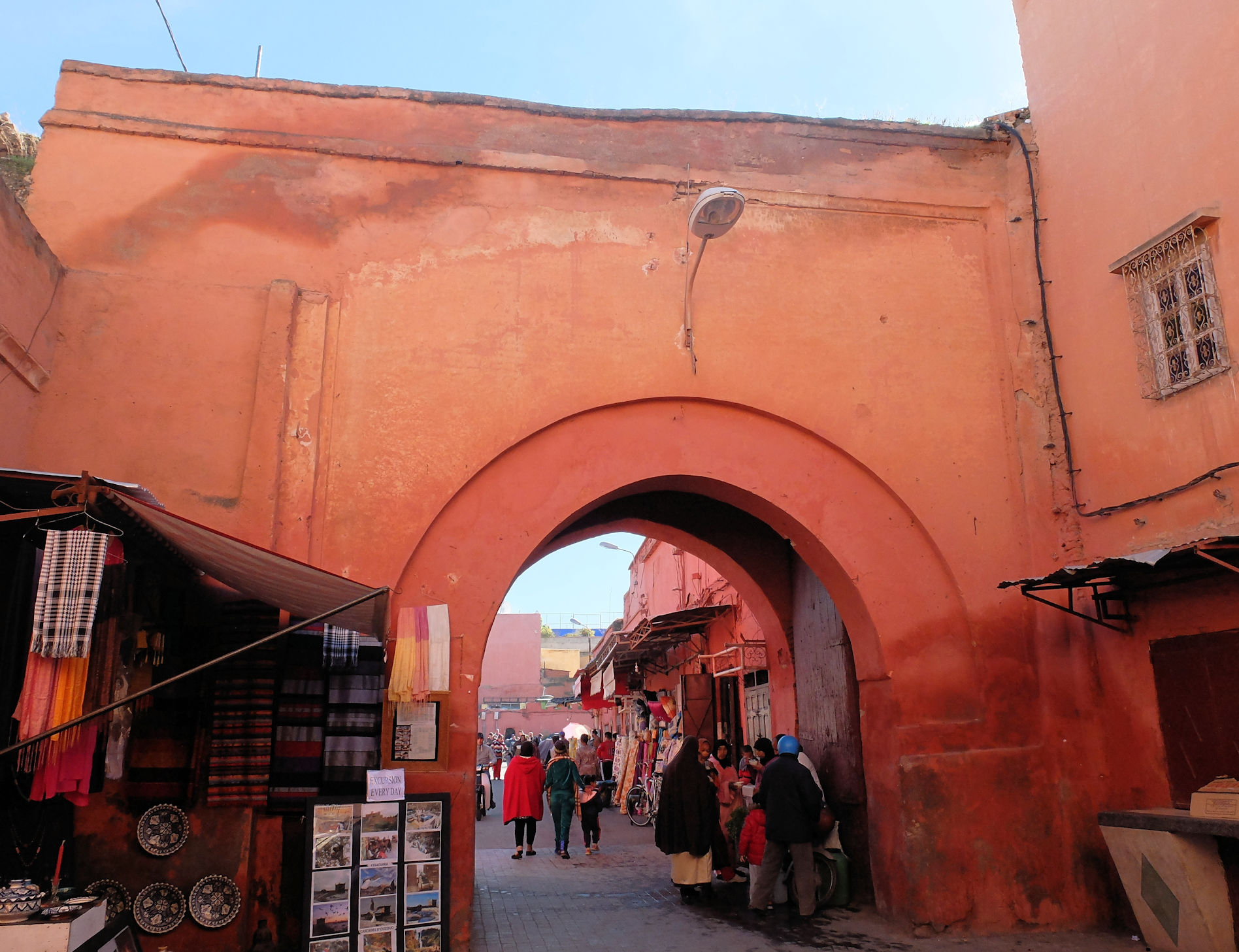 Bab Taghzout, the former northern gate of Marrakesh (now located inside the medina after the walls of the city were extended northwards).